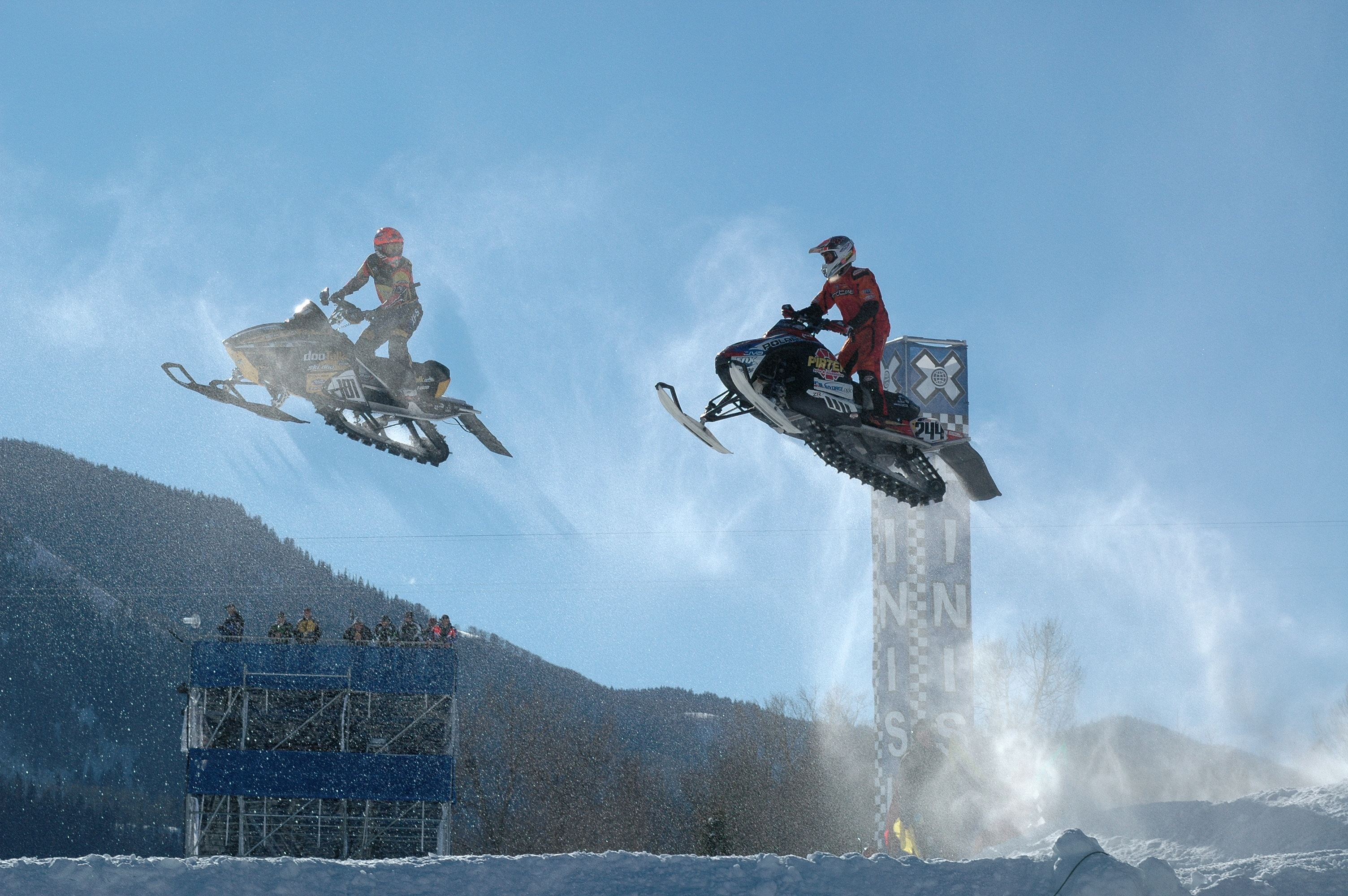 Katejun Coonishish (left) of Ouje-Bougoumou, Quebec, Canada and Bobby LePage of Duluth, Minnesota take flight Saturday, during a Snocross practice session at the Winter X Games in Aspen. Coonishish finished second in the first round of racing with LePage trailing him in third place. [Arthur Mouratidis]